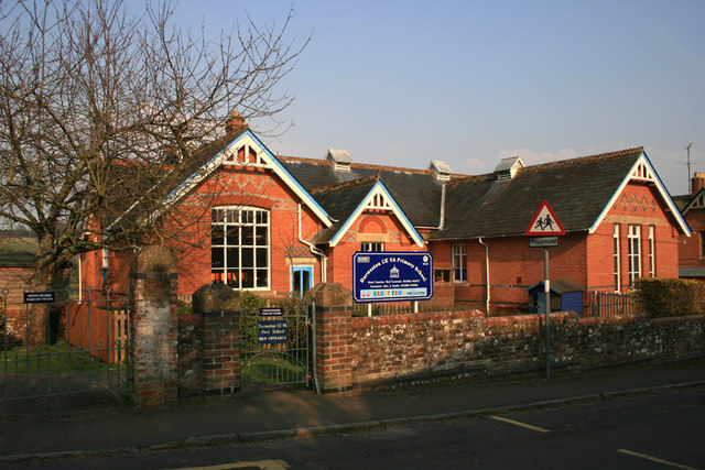 Durweston CE VA Primary School The front of the Primary School is the original school building. The school has been extended behind this building.